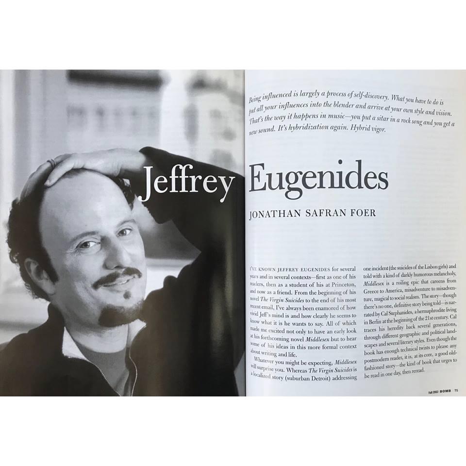 Print spread for the Jeffery Eugenides interview by Jonathan Safran Foer for issue #81